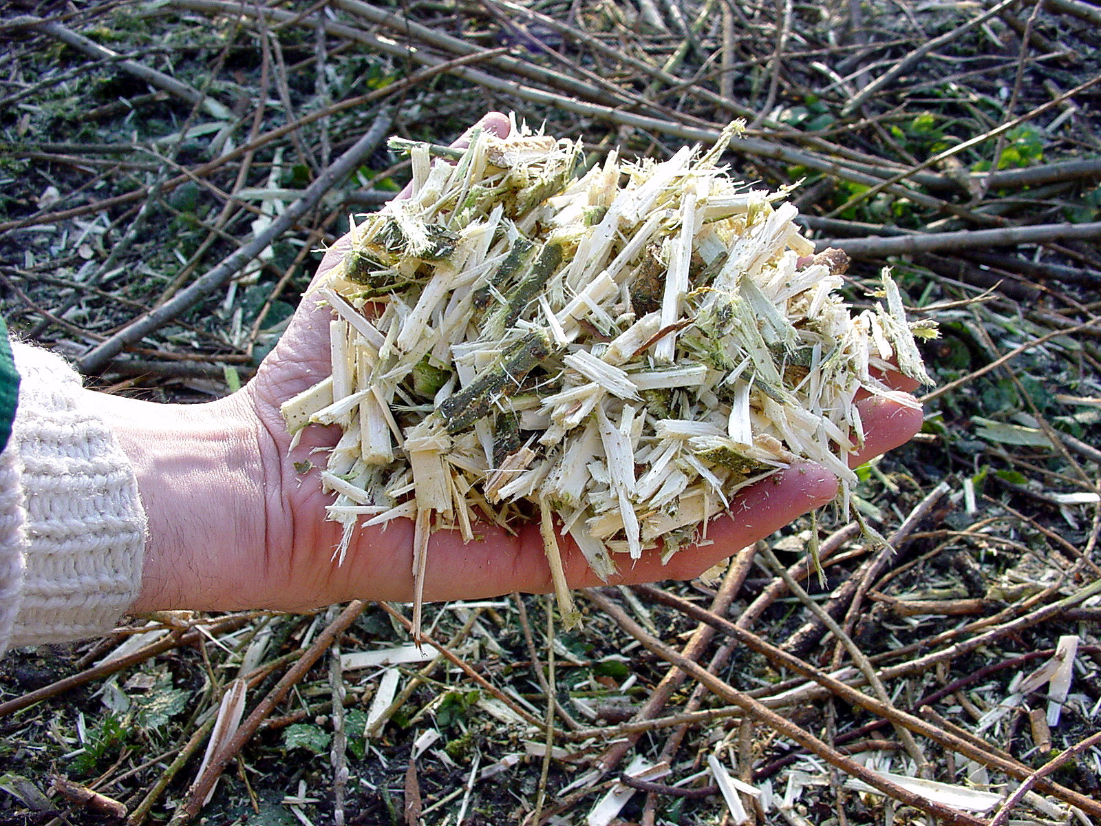 Coppice short rotation willow (clones), irrigated by water from the purification plant of Villeneuve d'Ascq (town, in northern France) for final purification of water (nitrates, phosphates). This coppice was used to produce wood chips to fuel a boiler-wood.